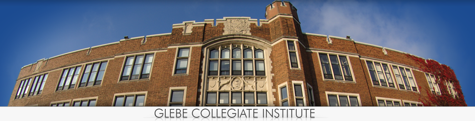 Glebe Collegiate in Ottawa